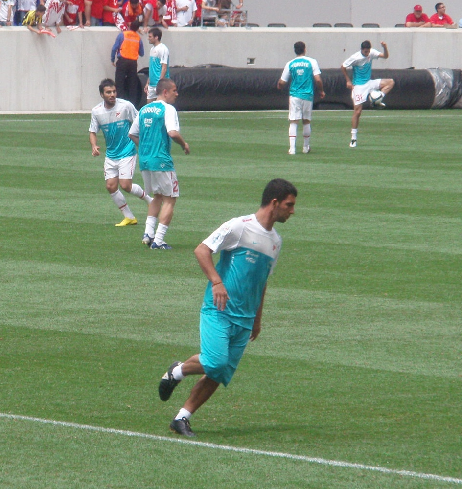 Arda Turan playing for the Turkish National Football Team